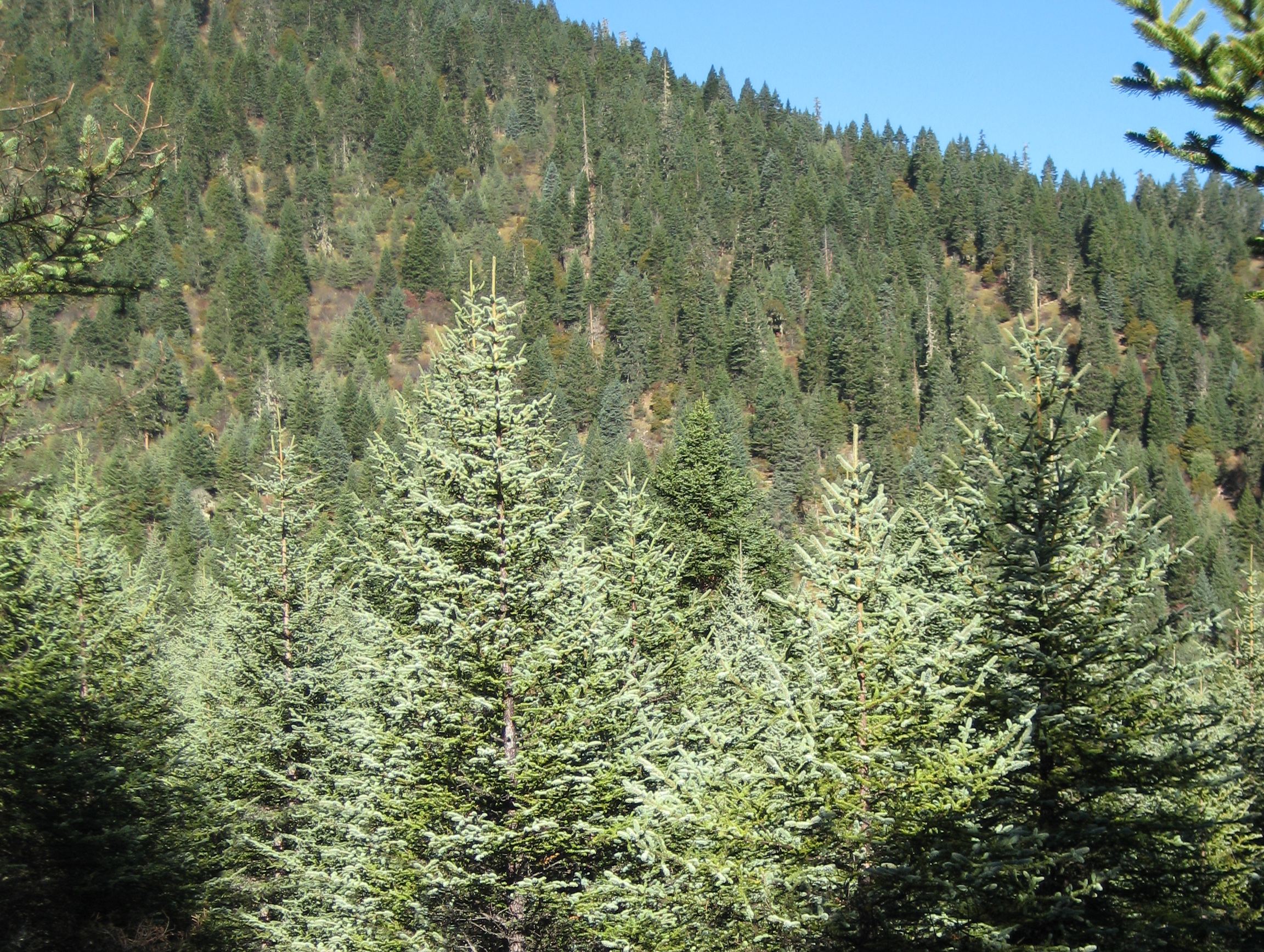 Picea asperata young trees. Huluhai, Sichuan - 葫芦海 四川.